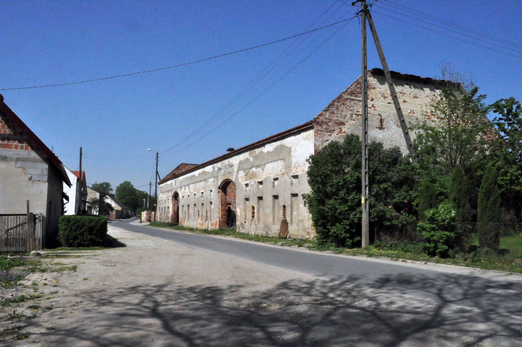 One of the streets